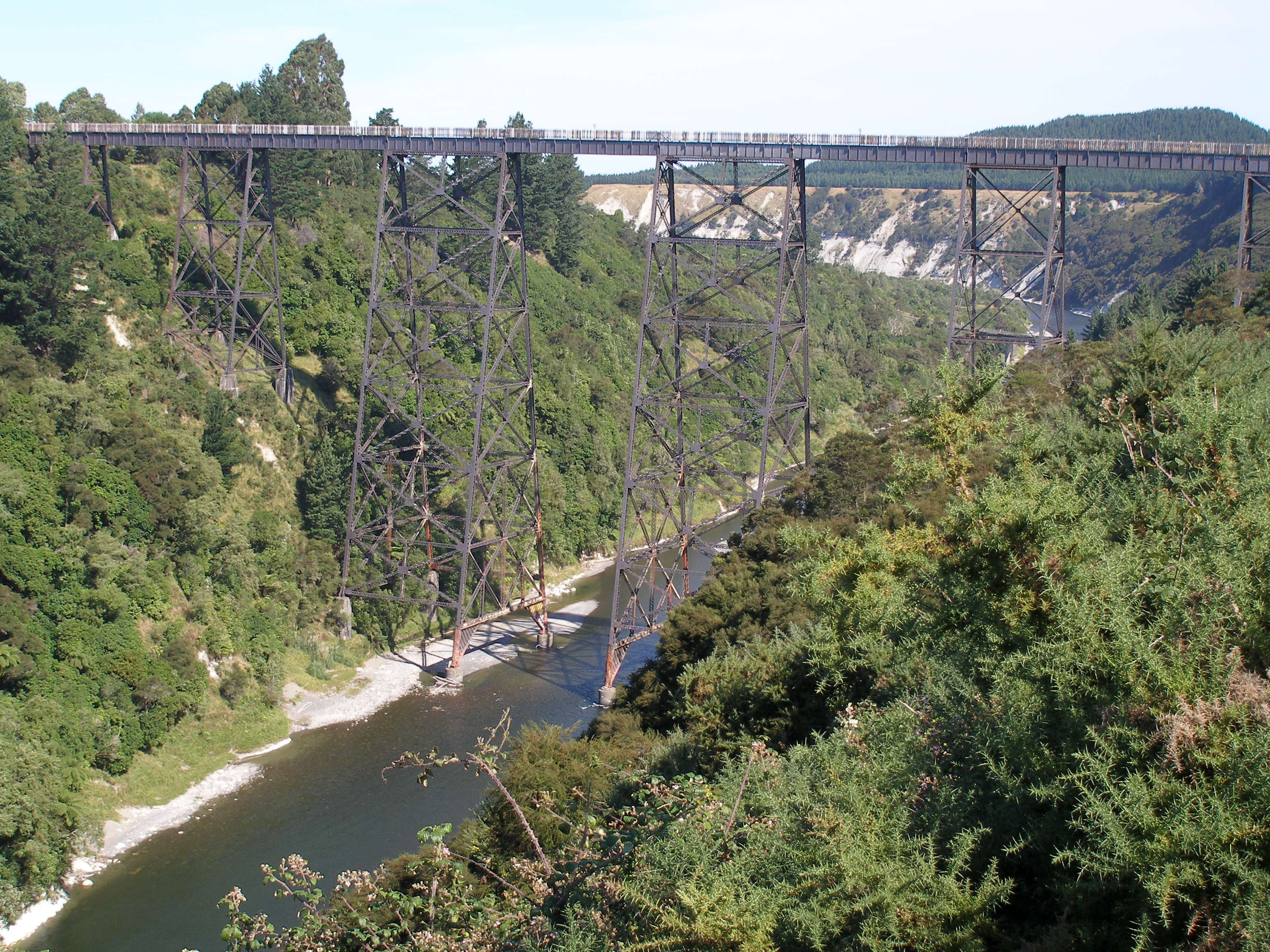 The Mohaka viaduct in Northern Hawkes Bay, New Zealand. Completed in 1937, it is the highest viaduct in Australasia.